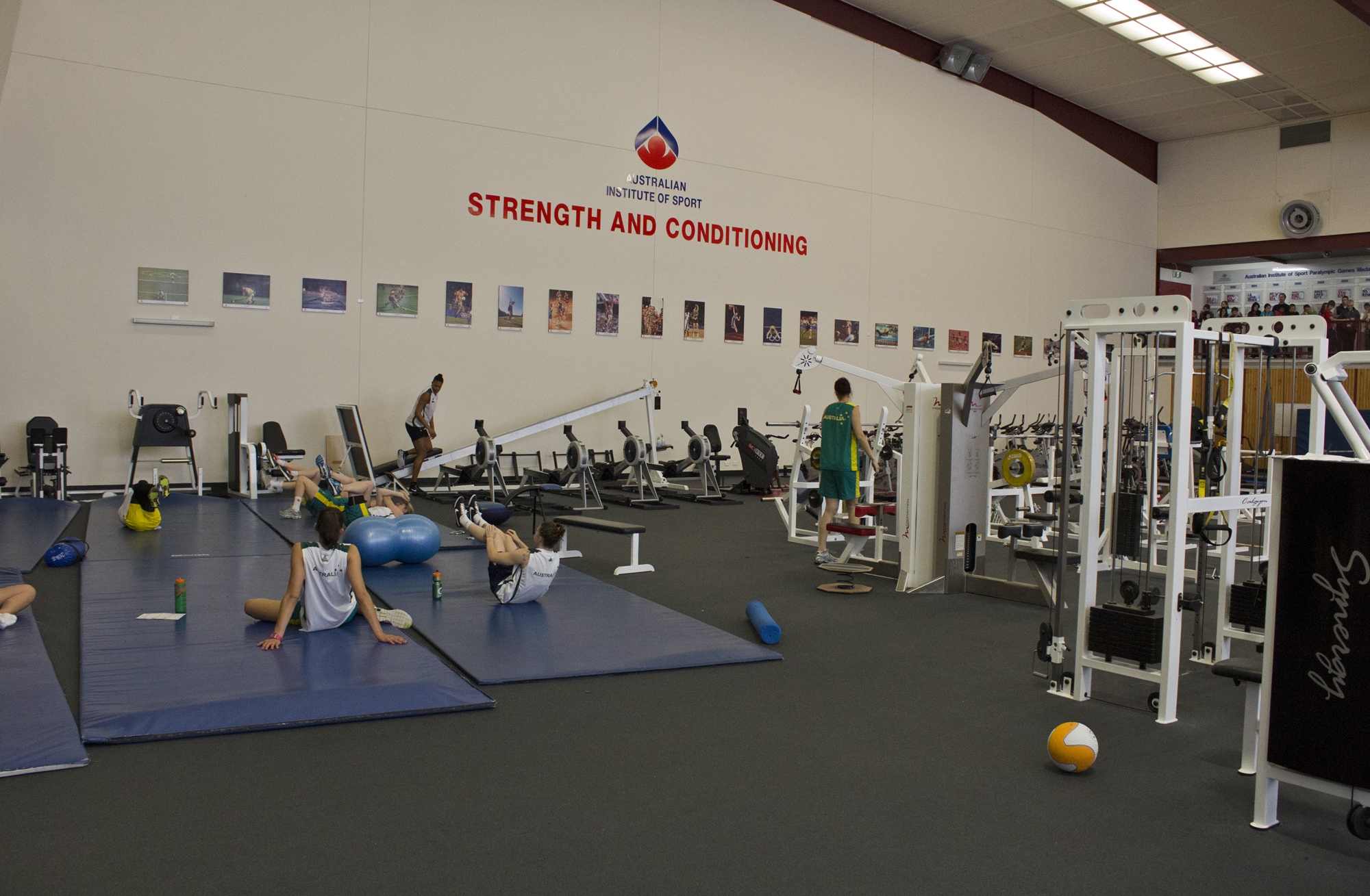 Australian Opals in the AIS Strength and Conditioning Gym during day three of the Opals camp. Marianna Tolo is the player sitting closet to camera with her back to the camera where you see the bottom of her shoes. Liz Cambage is at the equipment at the back of the room. Carly Wilson is doing situps closest to and behind the blue ball exercise equipment.